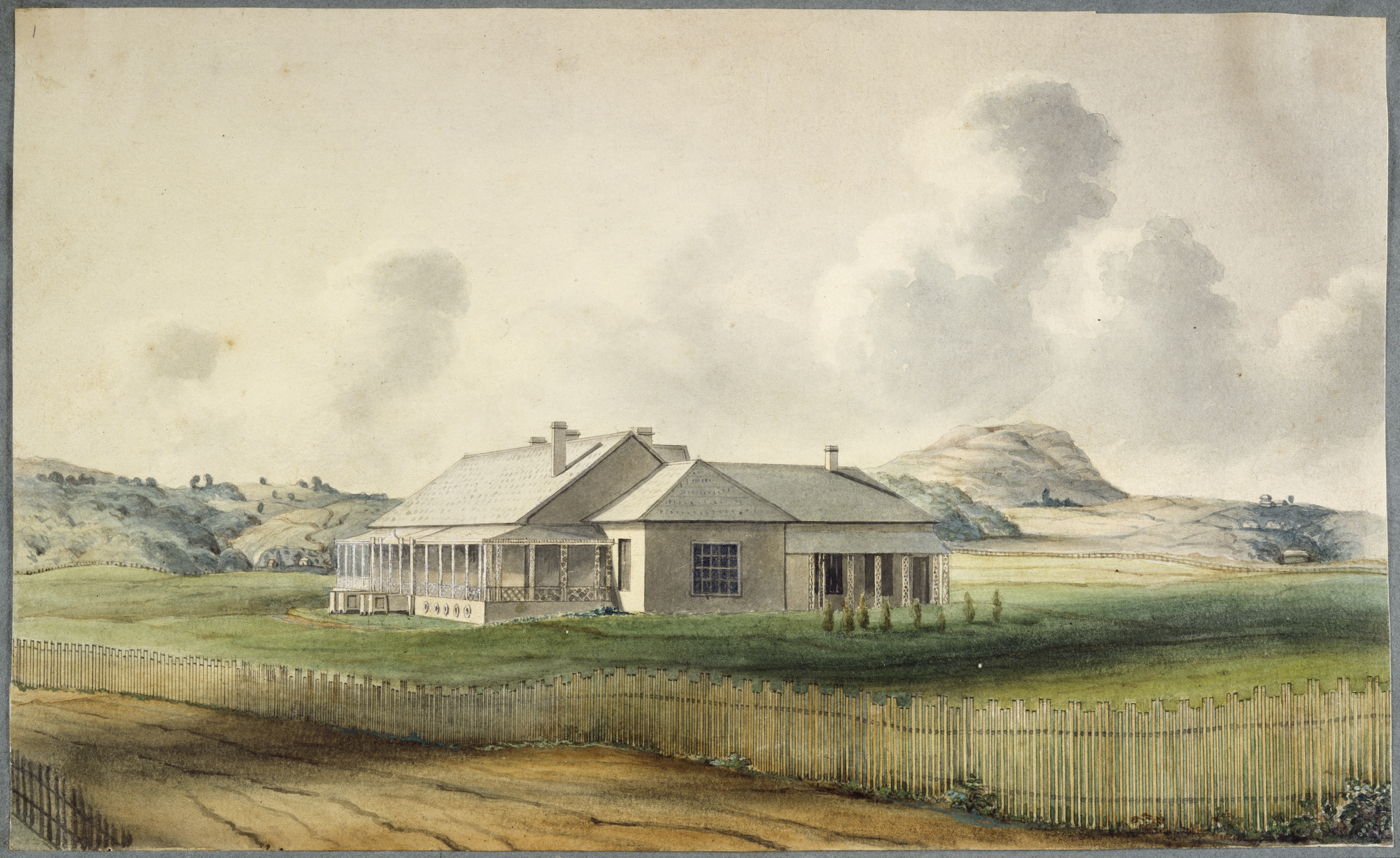 The first Government House in Auckland. Hobson moved in during March 1841. The building burned down in 1848. The description page on the National Library website says that the house was built in 1842, which is wrong. For details, see chapter 6 of 'City of the Seas' (Reed, 1955).